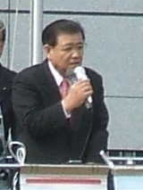 House of Councillors for the Japanese Communist Party.